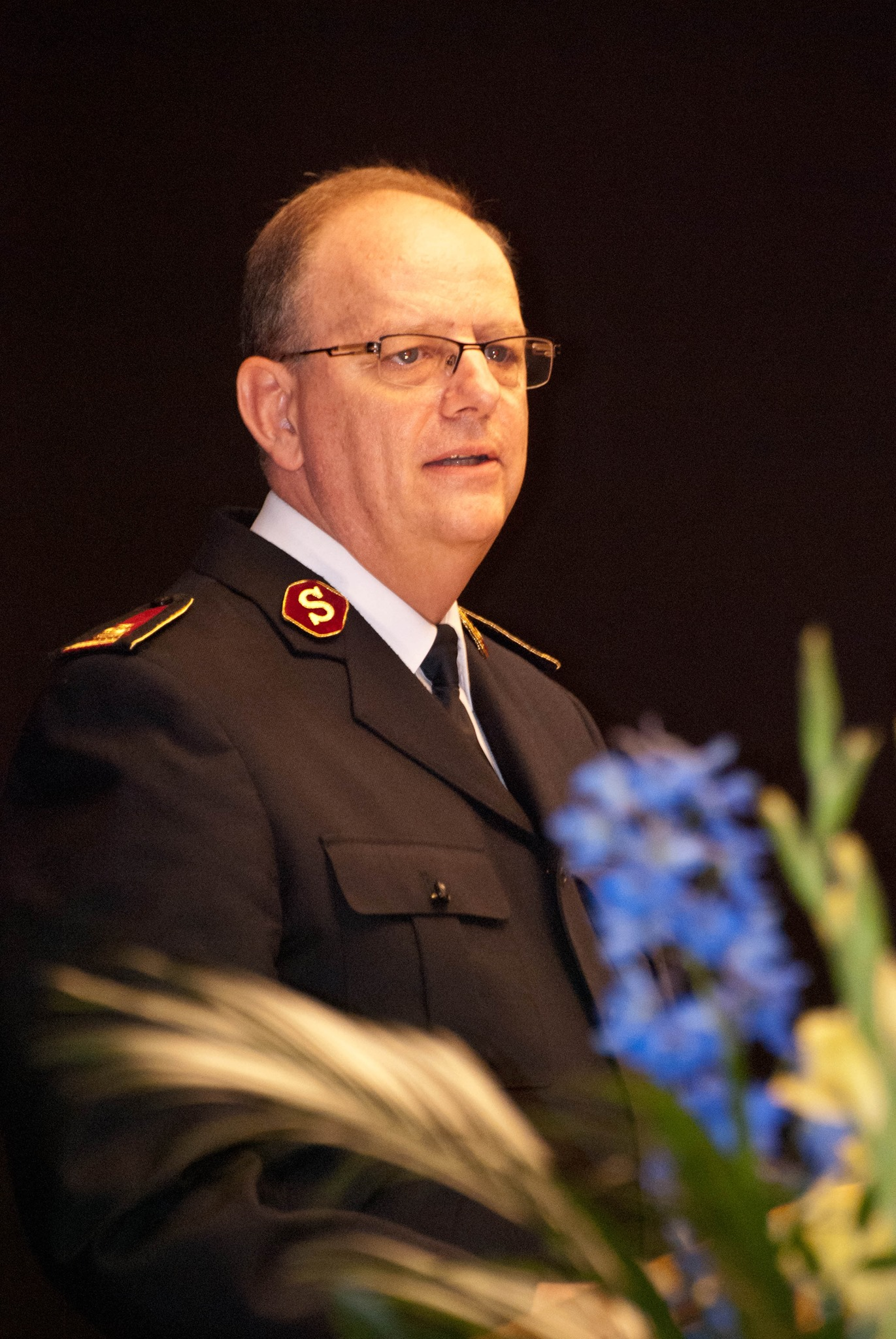 The final moments of the High Council of The Salvation Army in August 2013, General André Cox address those gathered.